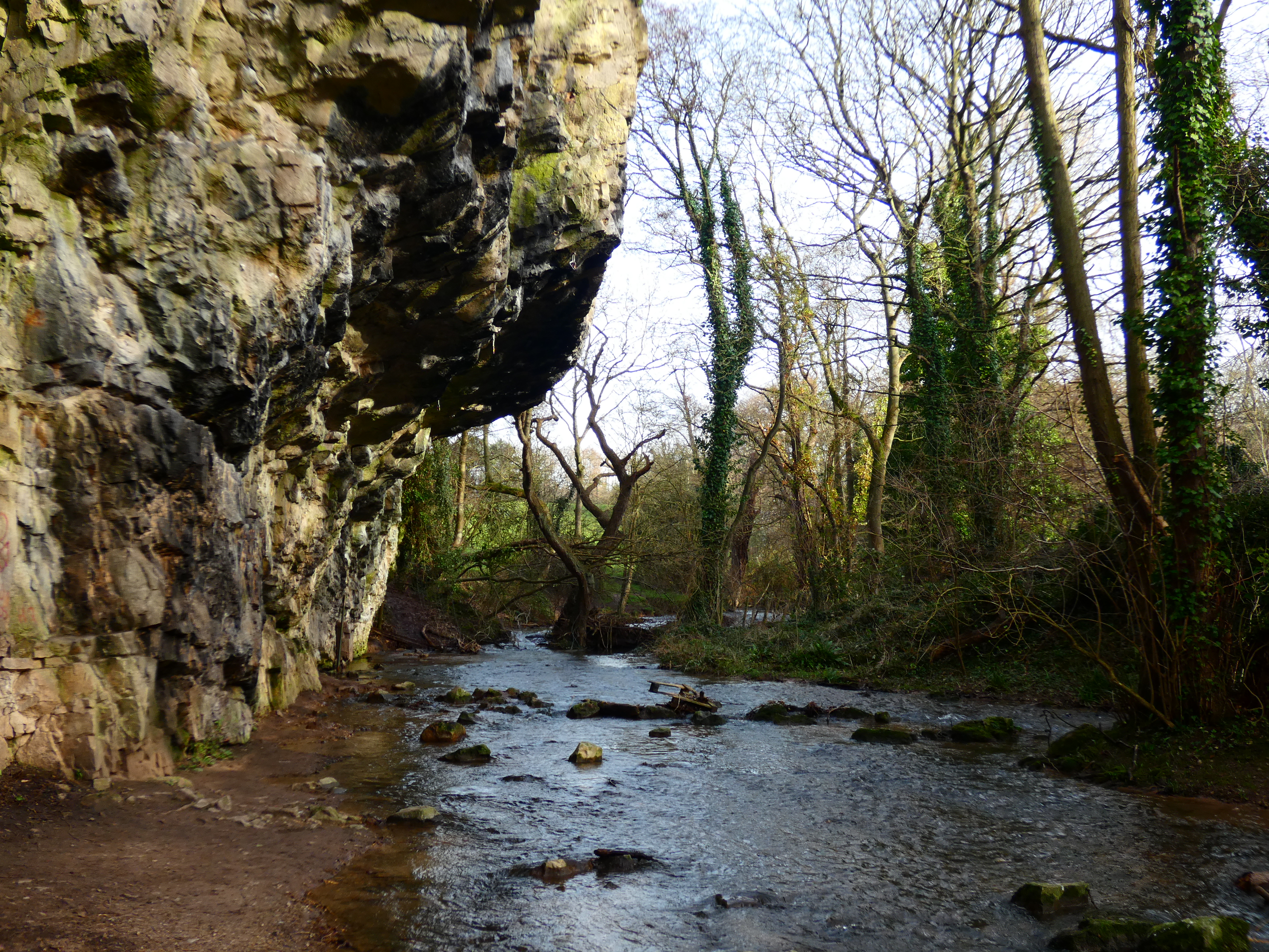 Taken in January